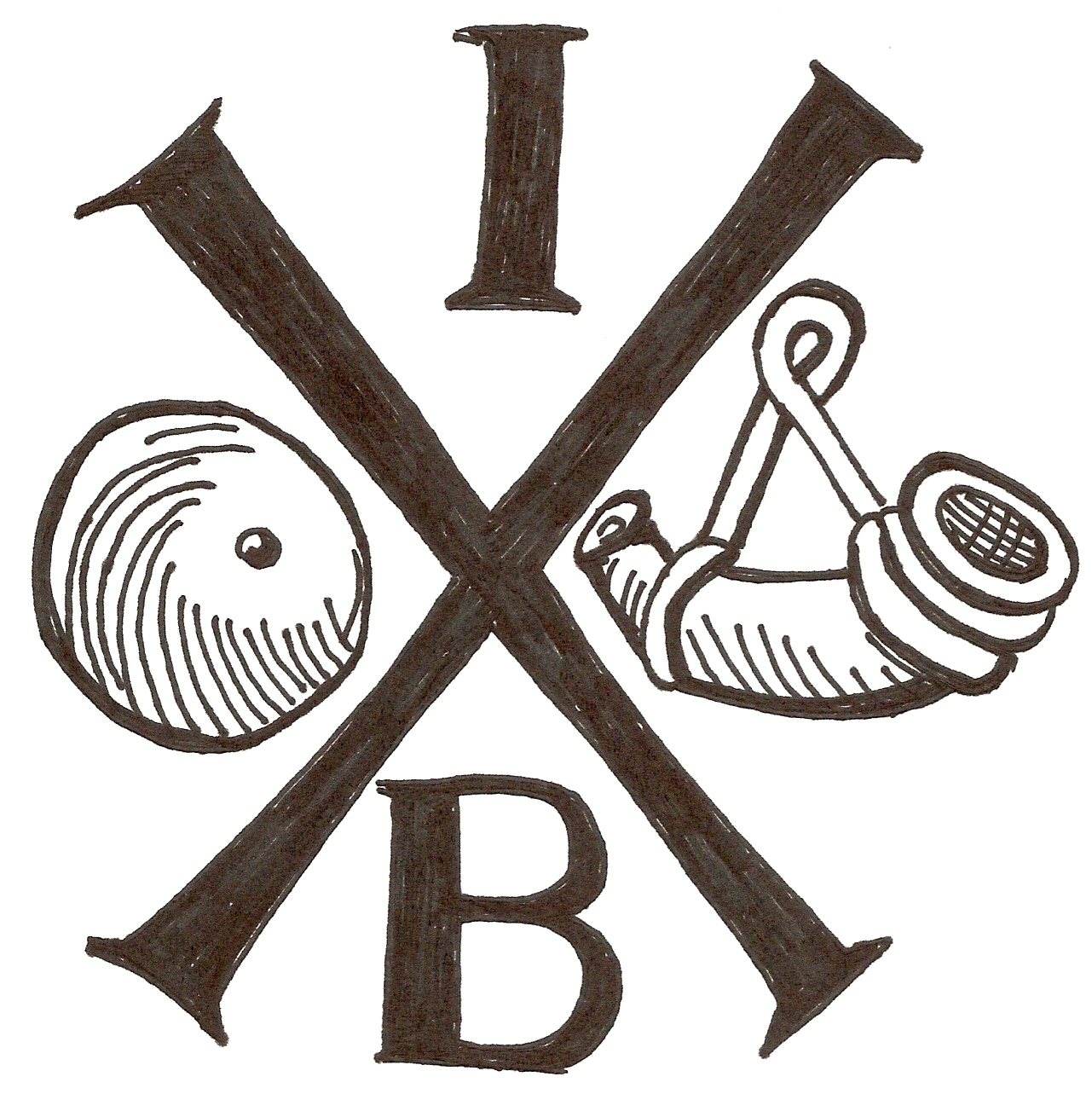 Printer's sign of Johann Balhorn